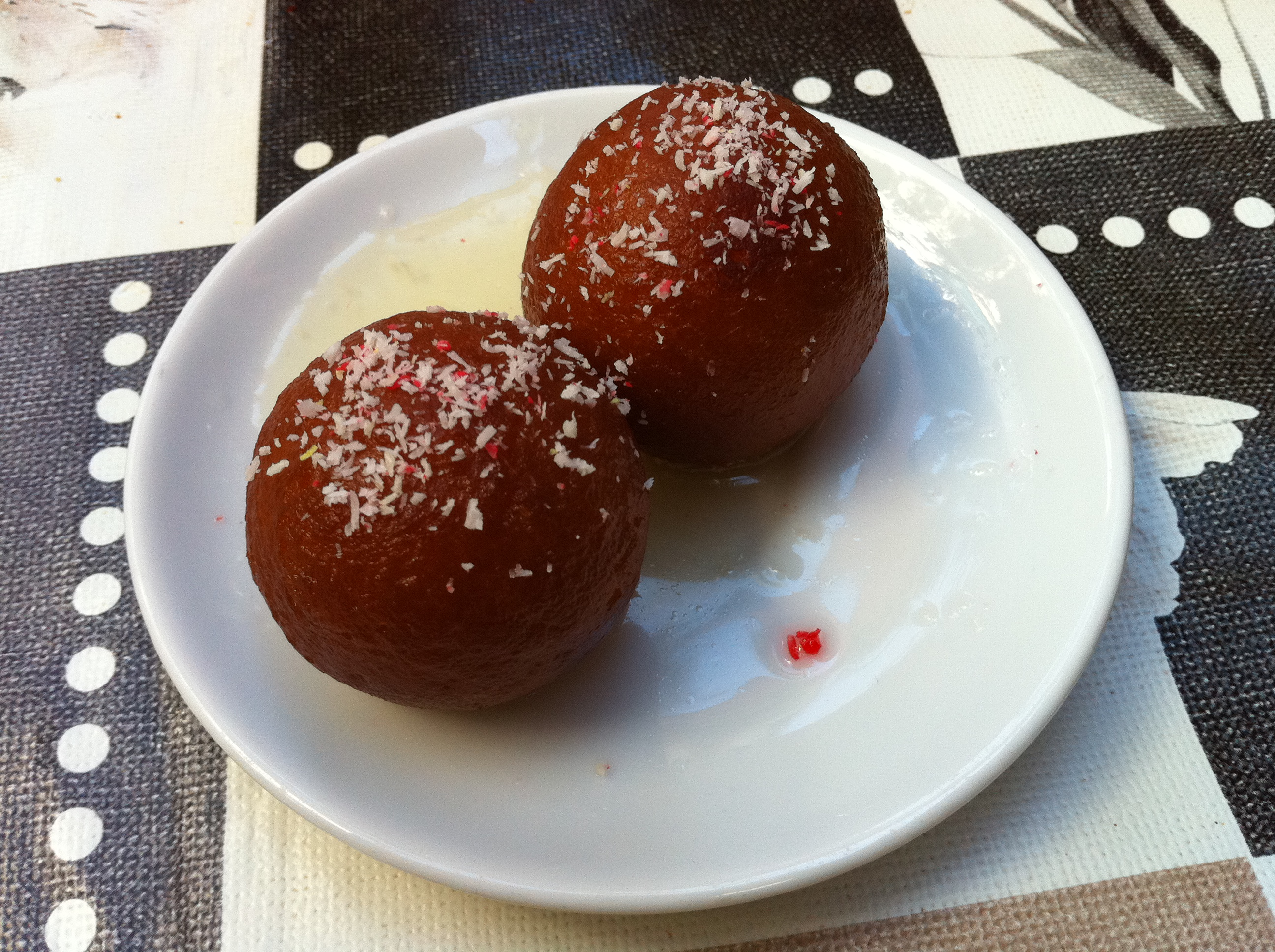 Gulab jamun